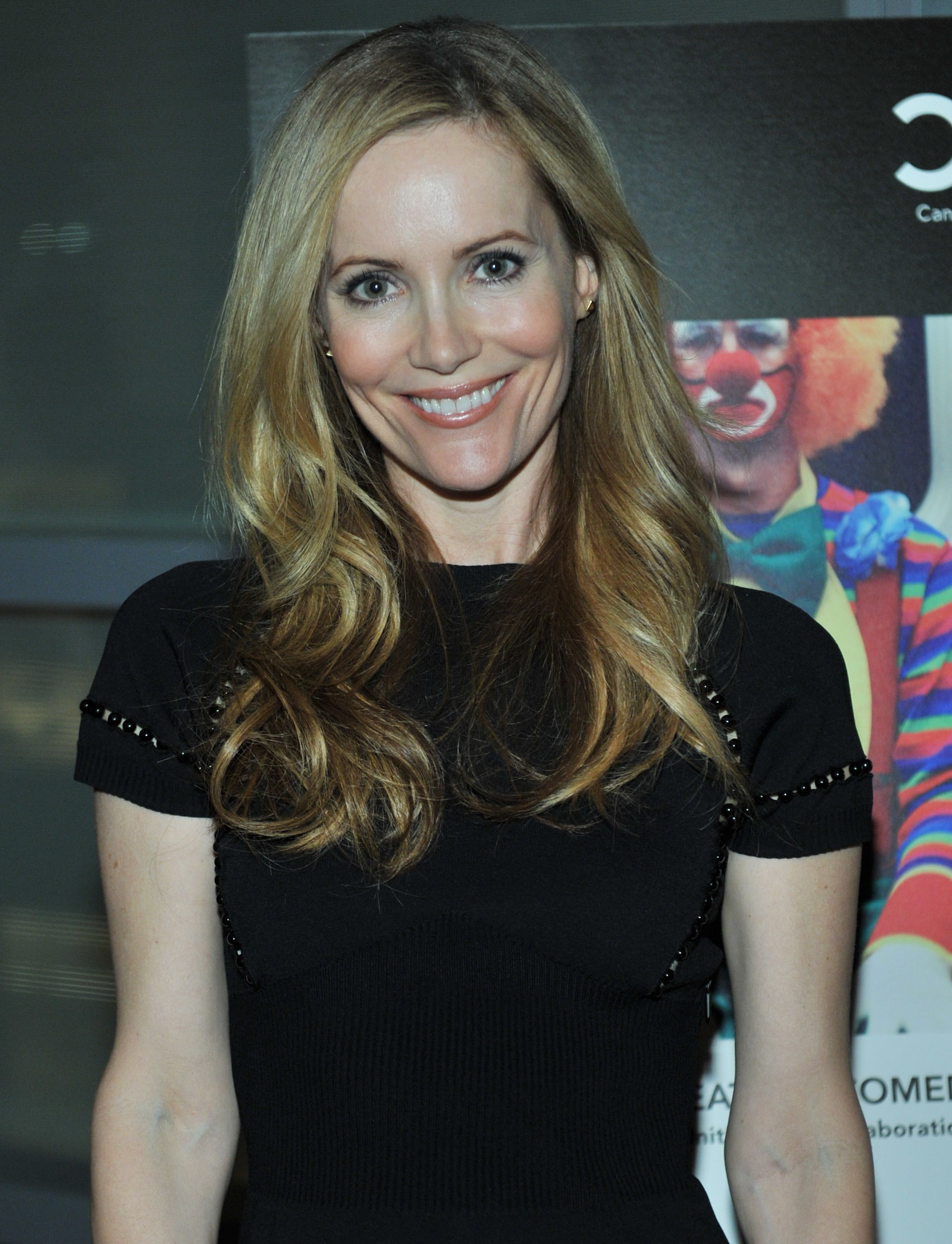 Leslie Mann at the Telefilm Canada Feature Comedy Exchange 2012.